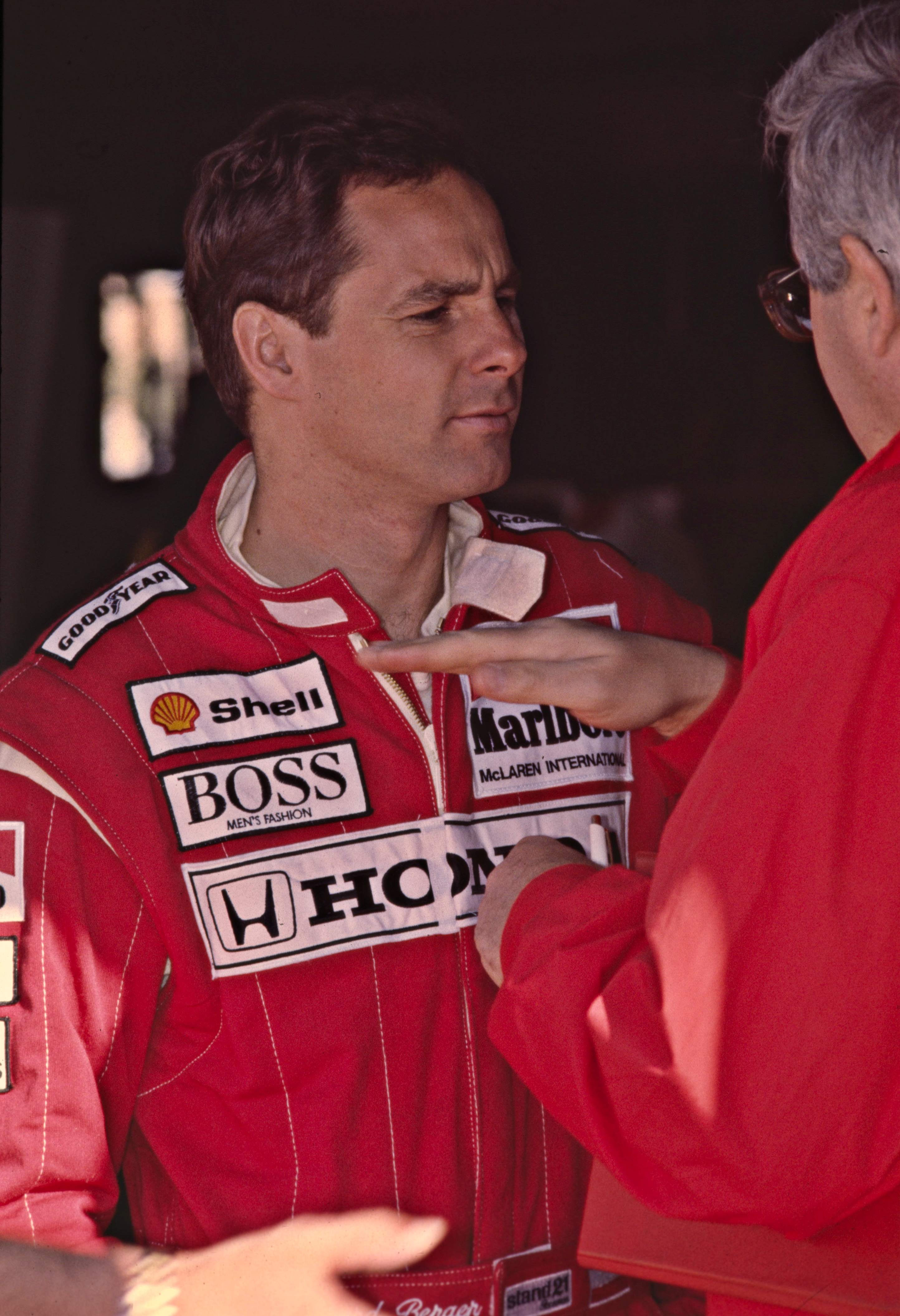 Gerhard Berger at the 1991 United States Grand Prix - Phoenix Arizona